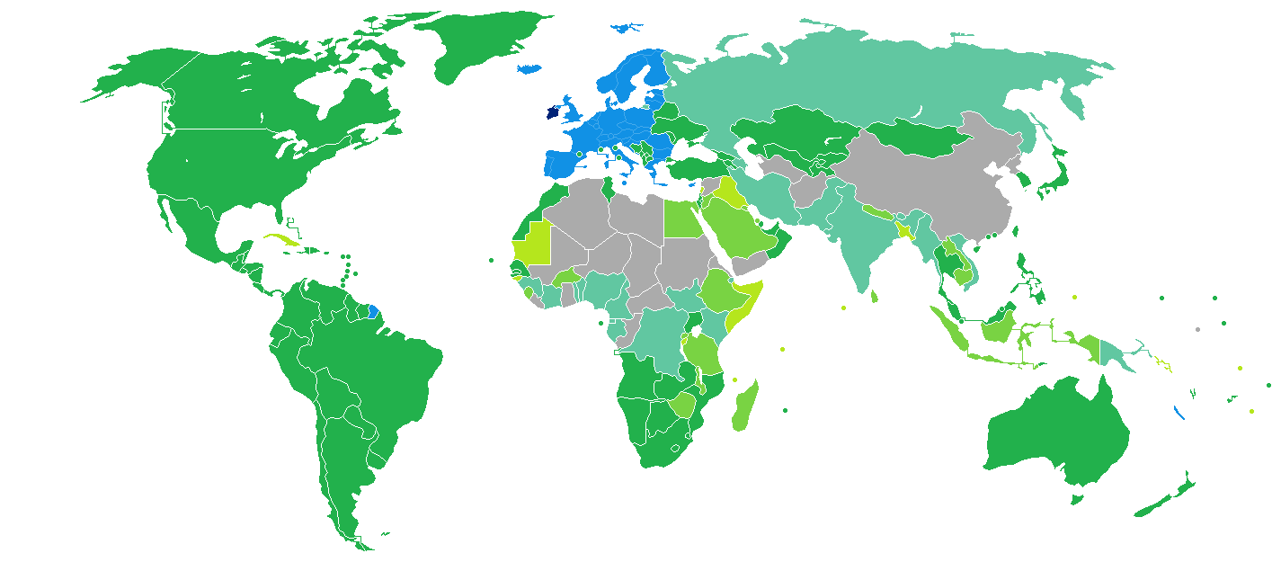 Visa requirements for Irish citizens Ireland Freedom of movement Visa not required Visa on arrival eVisa Visa available both on arrival or online Visa required prior to arrival